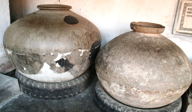 Photo of large earnthenware called Motka, dated 18th century Bengal.